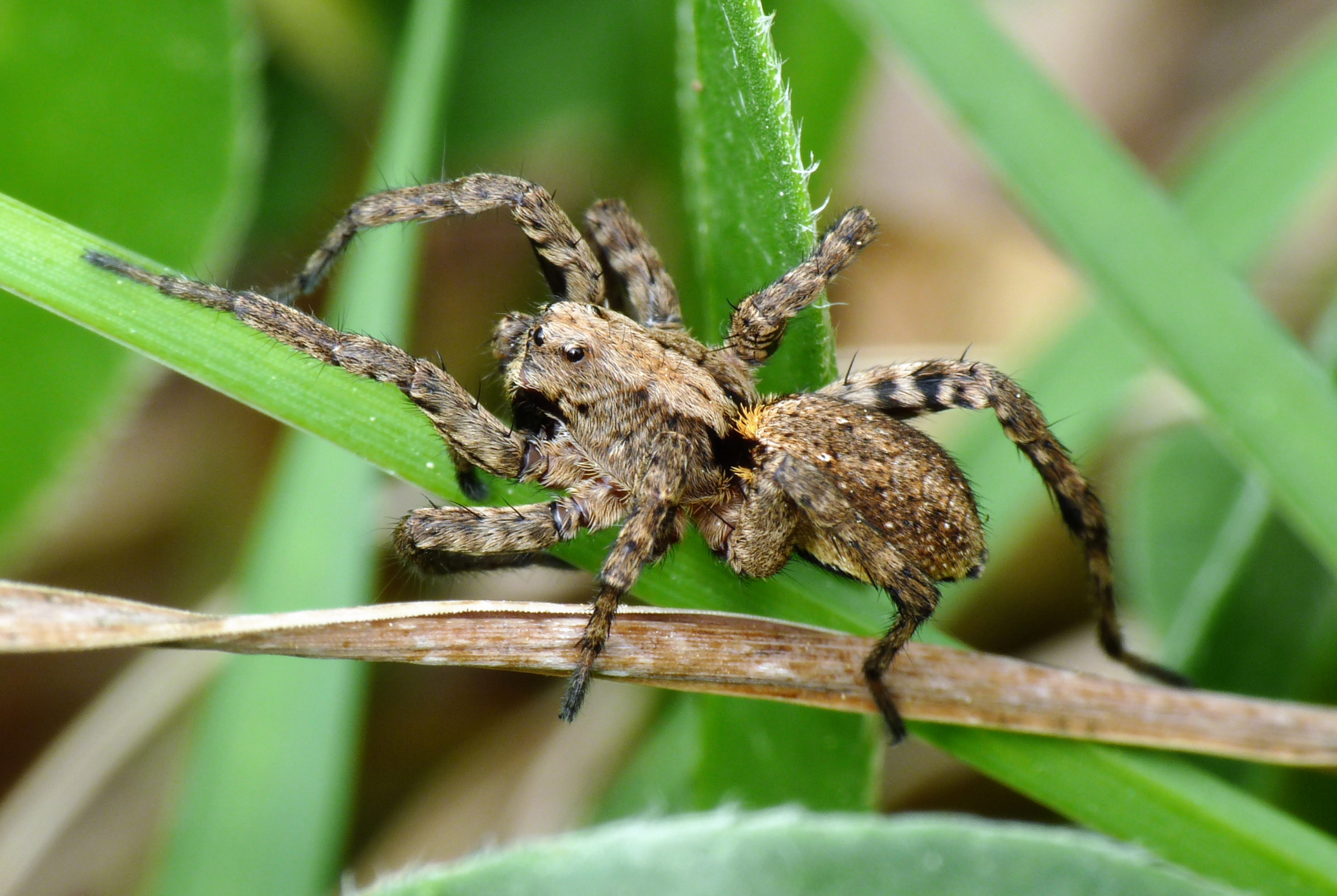 Alopecosa albofasciata, near Livorno, Tuscany, Italy